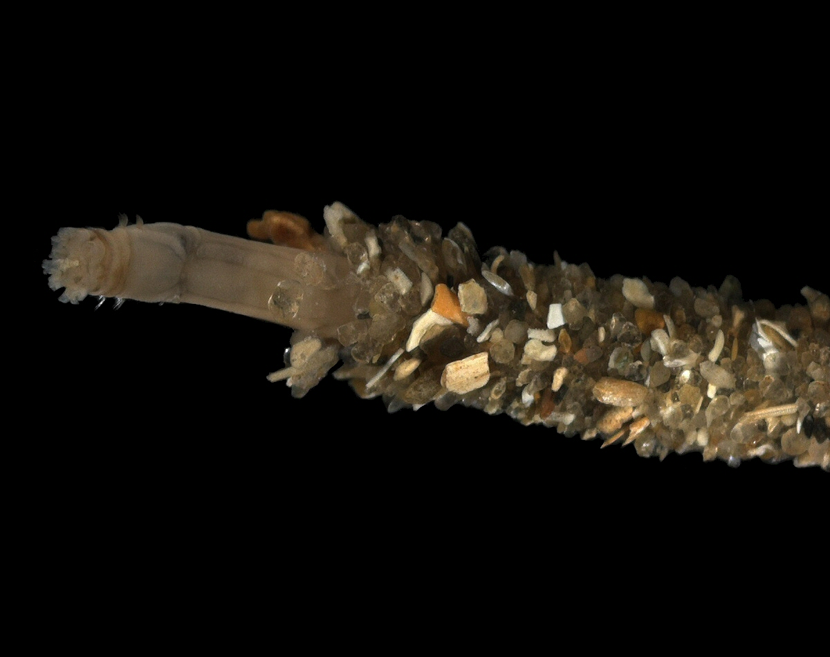 Tube-inhabiting bristle worm from the Belgian continental shelf. Lab image.